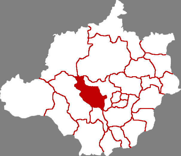 Location of Shunping county in Baoding City, China